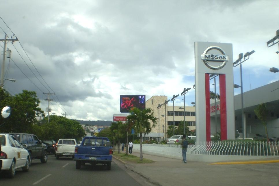 Grupo Q Car Dealership (right, front) and Banco Atlántida HQ offices (center, back) on Central America Blvd in Tegucigalpa, M.D.C., Honduras.